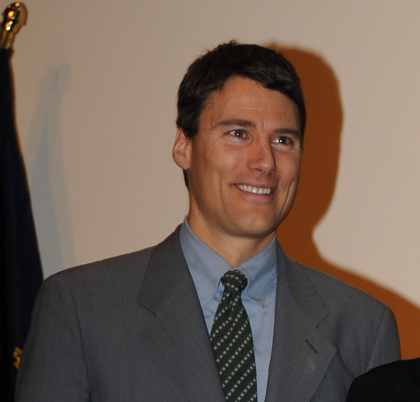 Gregor Robertson, mayor of Vancouver